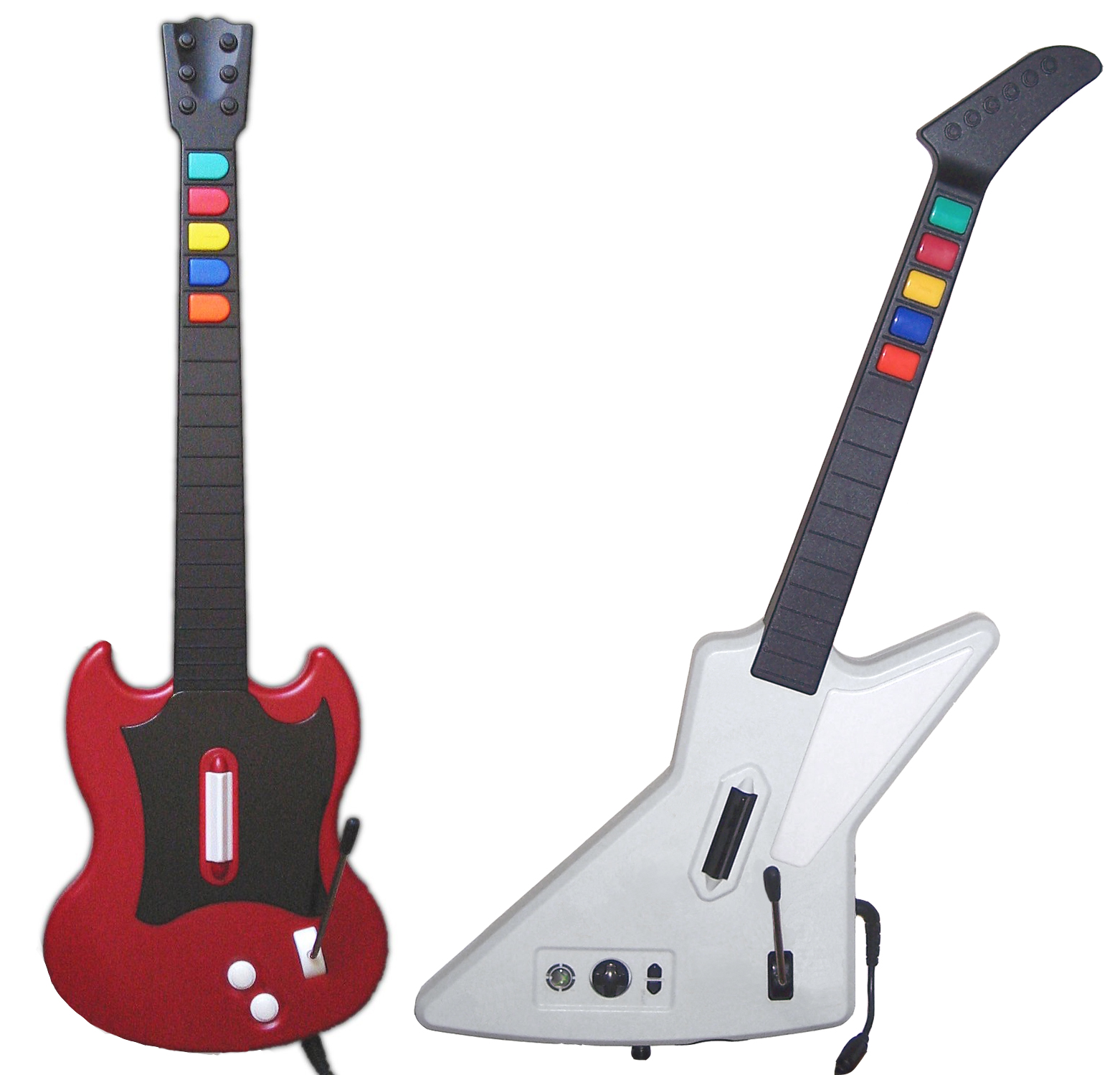 Photo of the guitar controller for the PlaySstation 2 game "Guitar Hero II".